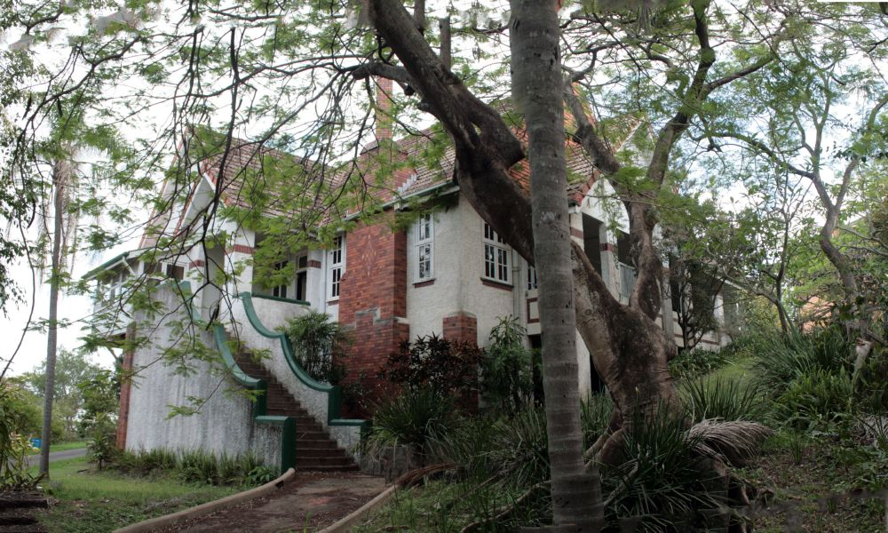 Kurrowah SE corner (2013)